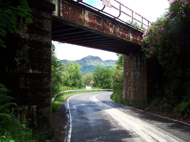 Whistlefield-Portincaple, Railway Bridge. Looking over Loch Long to "The Saddle"